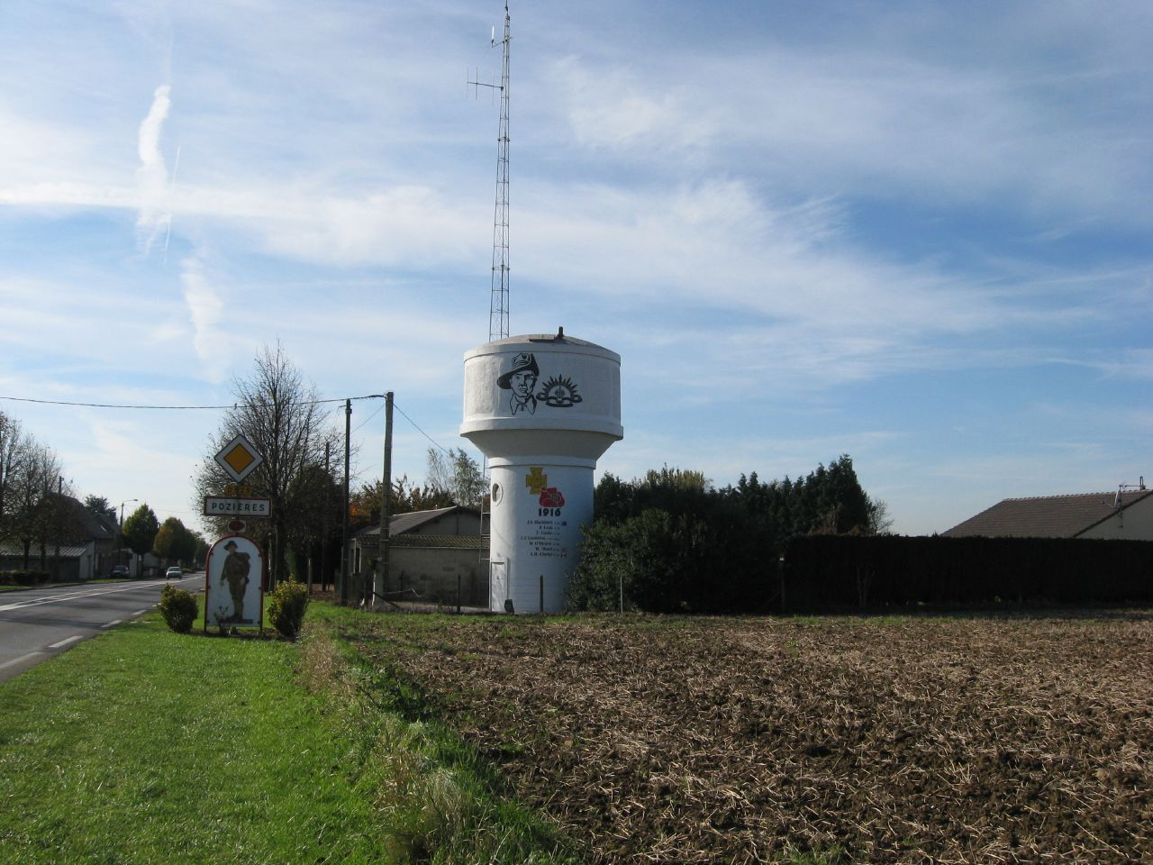 Pozières (Somme, Picardie, France)